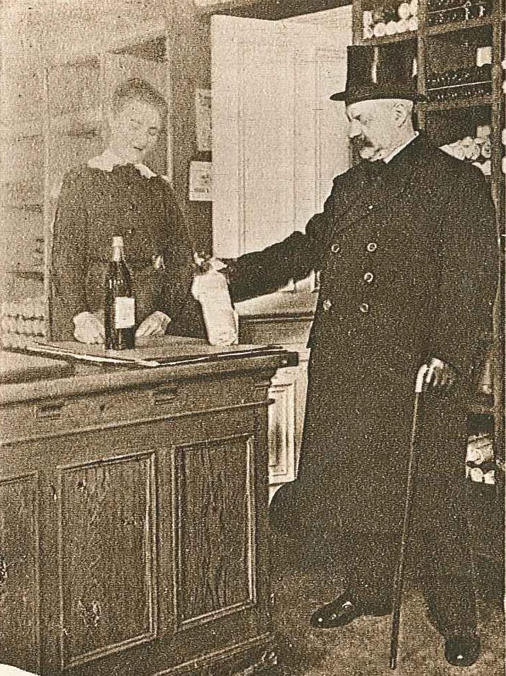 Emil Norlander (1865-1935), Swedish journalist, songwriter and writer and producer of revues; seen here bying his "glögg" (traditional Swedish mulled wine) for the Christmas of 1916.